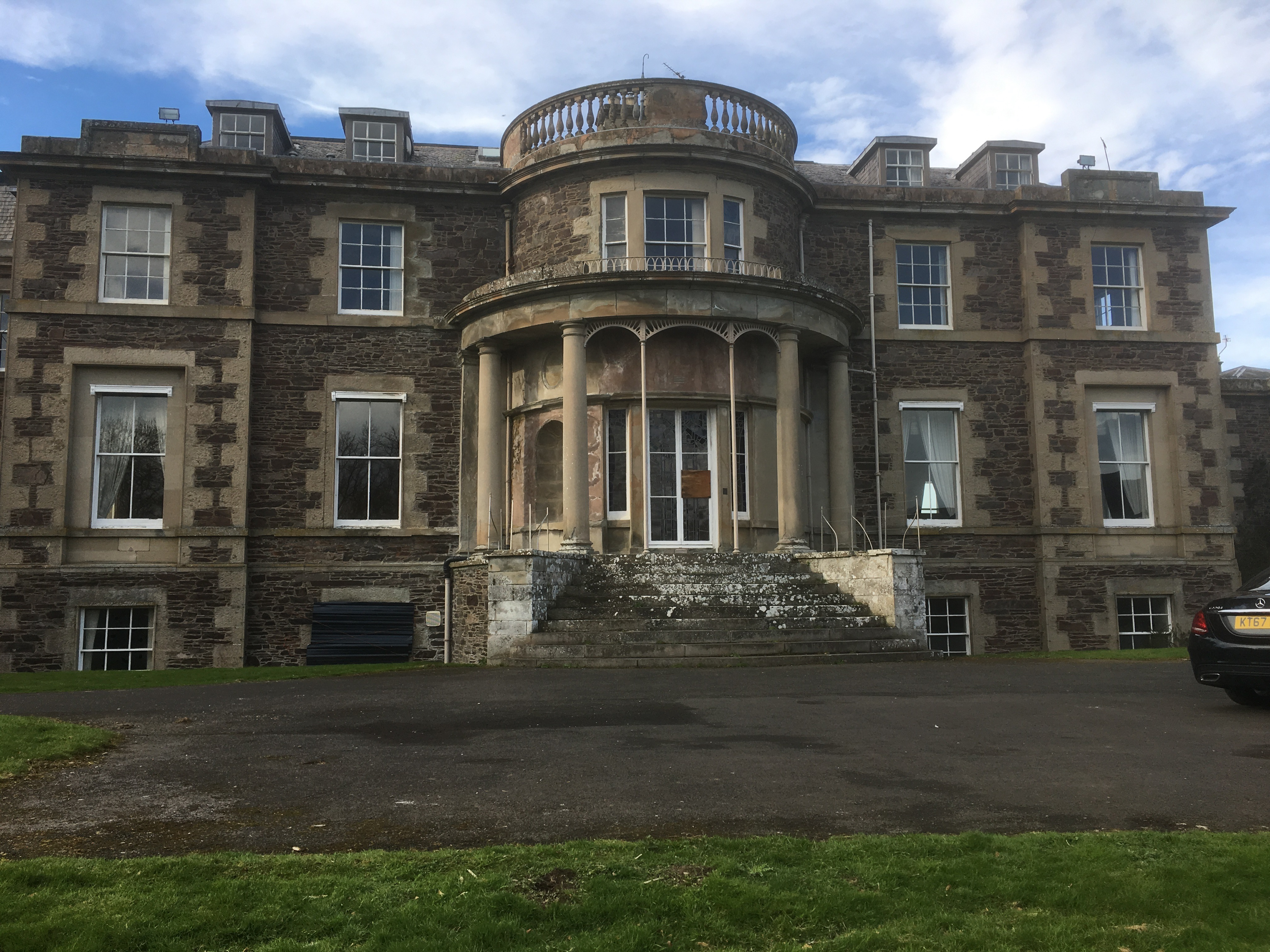 Gattonside House, the home of Sir Adam and Lady Margaret Ferguson after their marriage in 1821-1824. Sir Adam Ferguson was a close friend of Sir Walter Scott and Deputy Keeper of the Scottish Regalia. See Huntlyburn House for their other residence close to Abbotsford House.